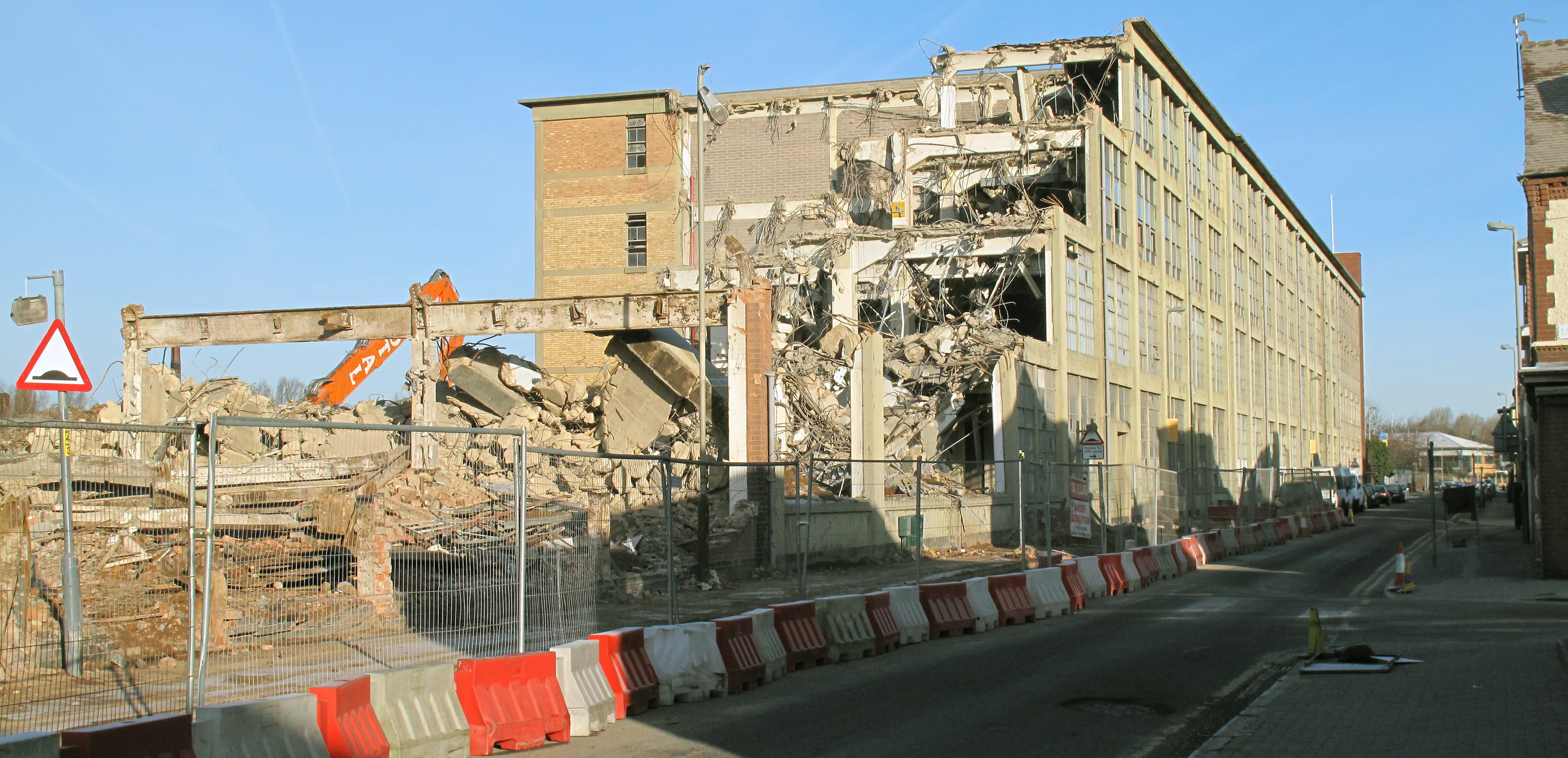 British United Shoe Machinery main factory building being demolished, Ross Walk, Leicester, 2010. After the company went into administration in 2000, the development company which owned the site gradually demolished the factory buildings and replaced them with dwellings. This photograph was taken from the position where the bridge that connected the factory buildings went across Ross Walk.